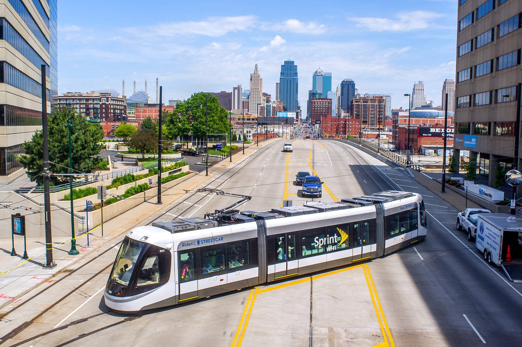 A CAF Urbos 3 streetcar of the KC Streetcar system, in Kansas City, Missouri, leaving the line's Union Station terminus (going away from the camera) on the second day of service.